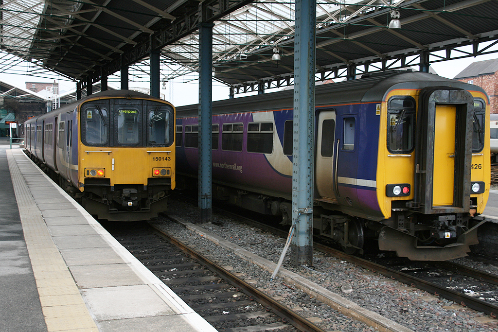 Two Northern Rail DMUs await theur journeys to Manchester Piccadilly via the Mid-Cheshire line.